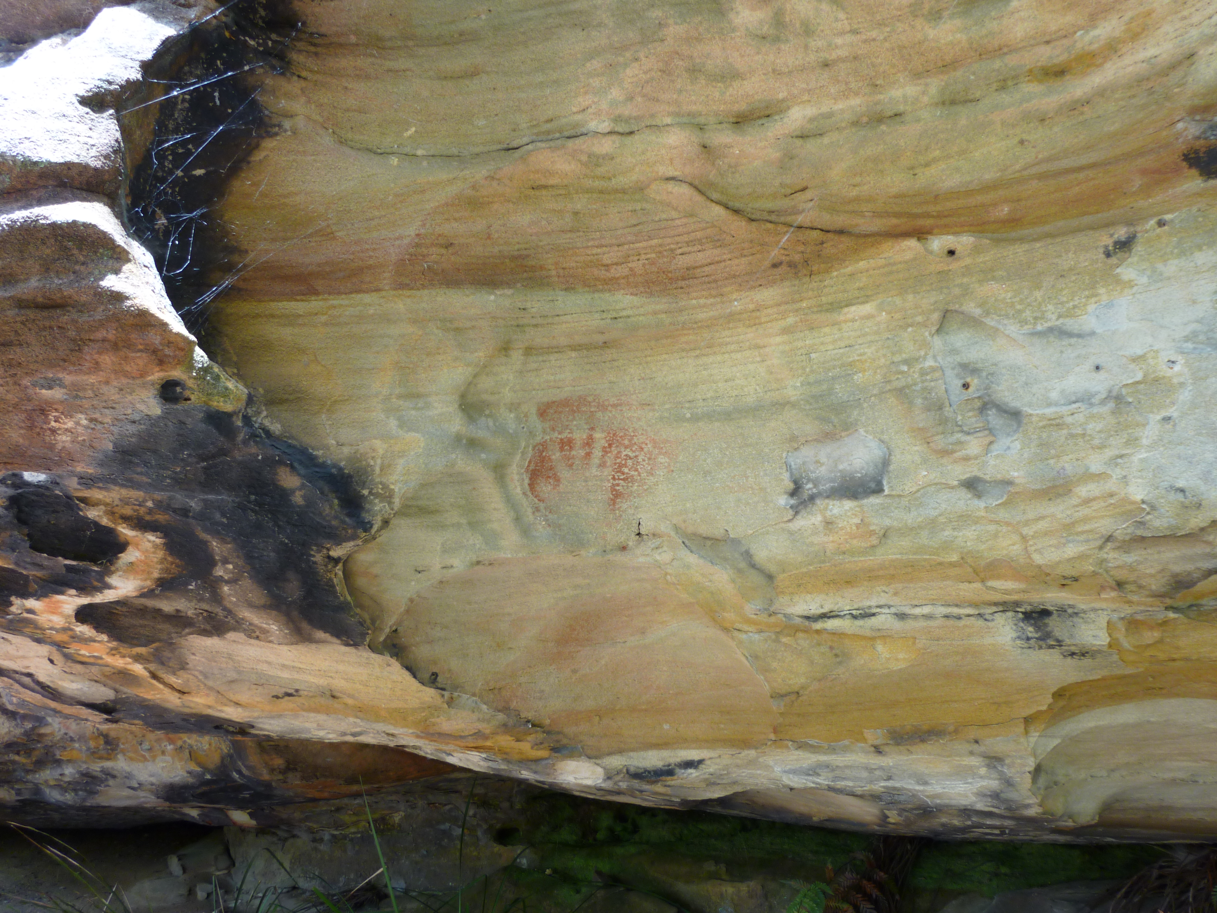 from red hands cave